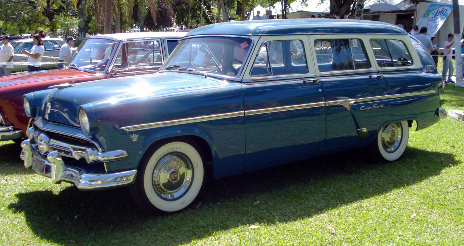 1954 Ford Customline Country Sedan at Águas de Lindóia car show (near Saõ Paulo), 2009